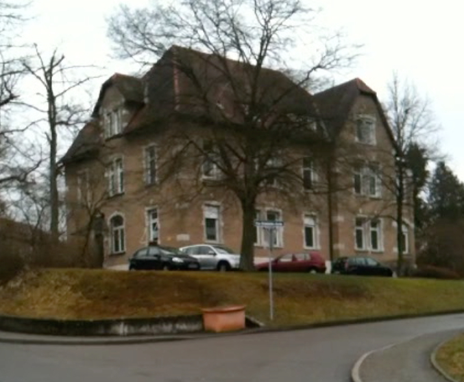 Soteria (alternative psychiatric treatment ), Zwiefalten / Germany at spring of 2011 from the southwest.